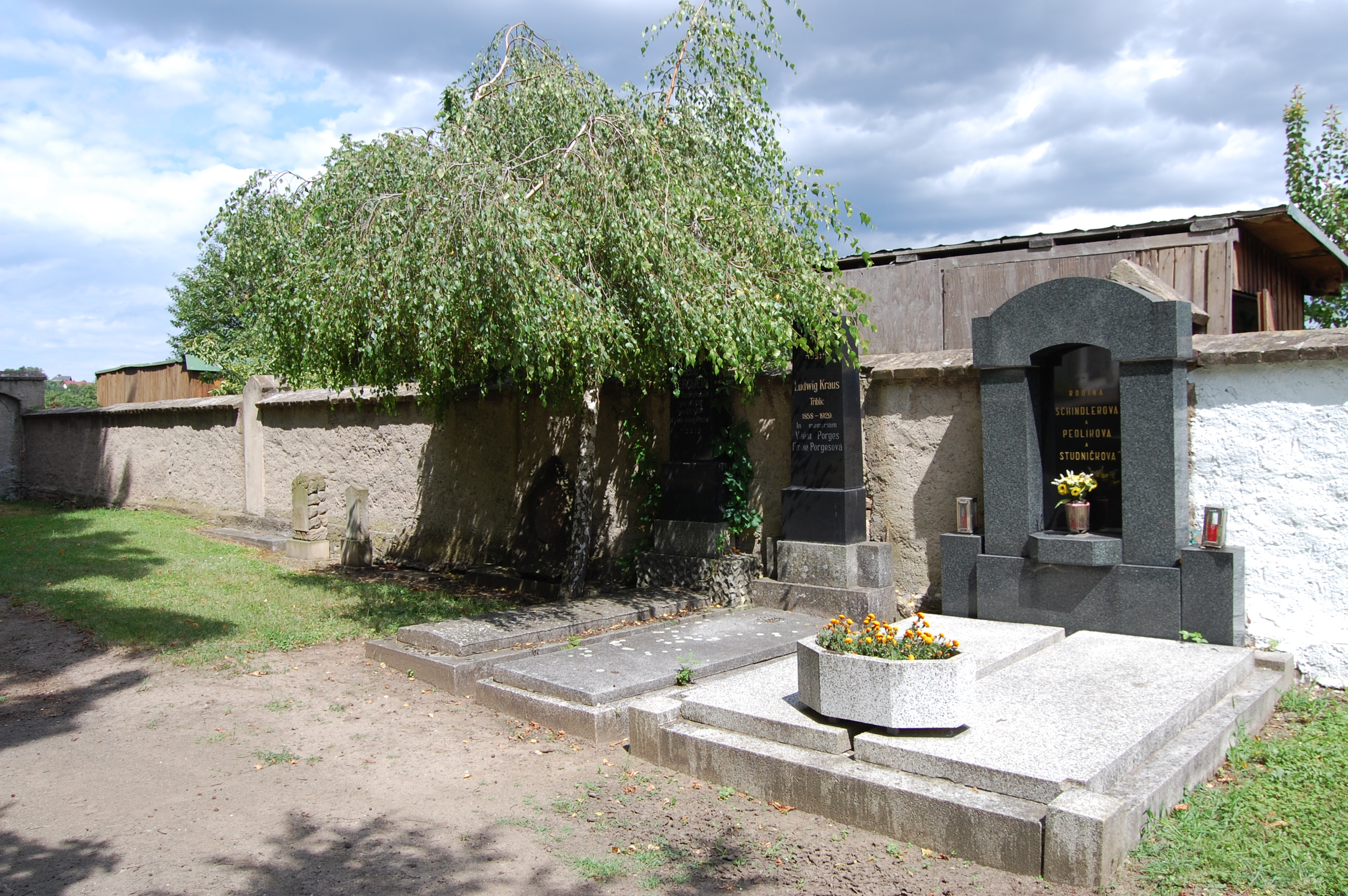 Jewish cemetery in Lovosice, Czech Republic